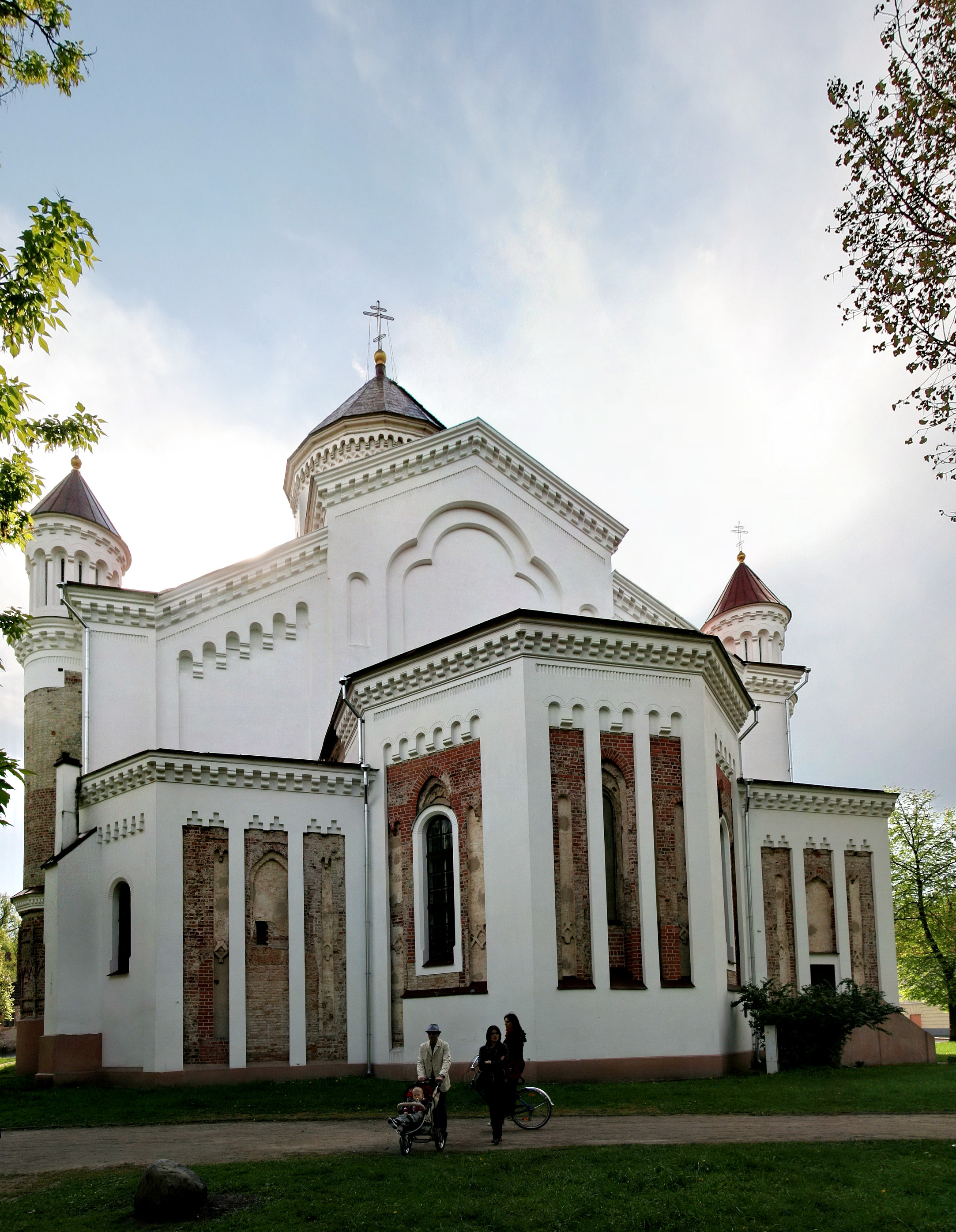 Orthodox Cathedral of the Dormition of the Theotokos in Vilnius